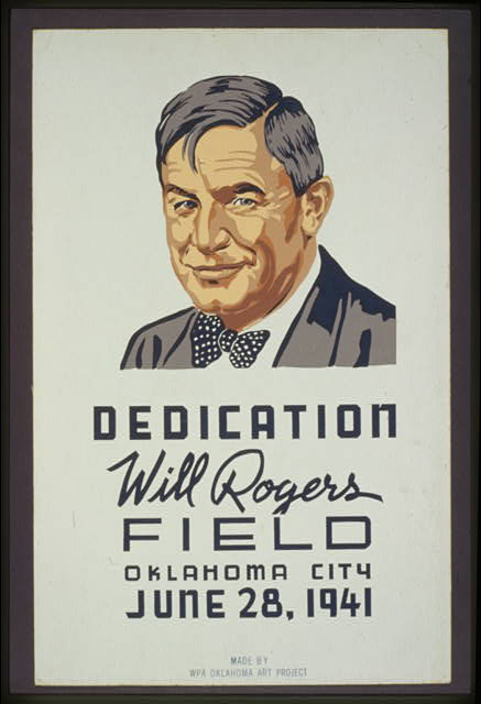 WPA poster for dedication of Will Rogers Field, showing head-and-shoulders portrait of Will Rogers, facing slightly left.